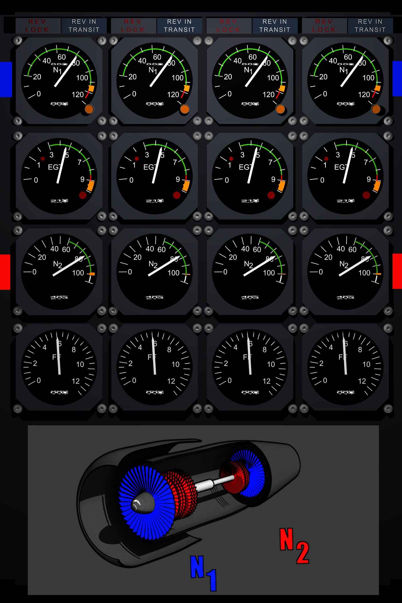 Illustration of terms related to Turbofan engines